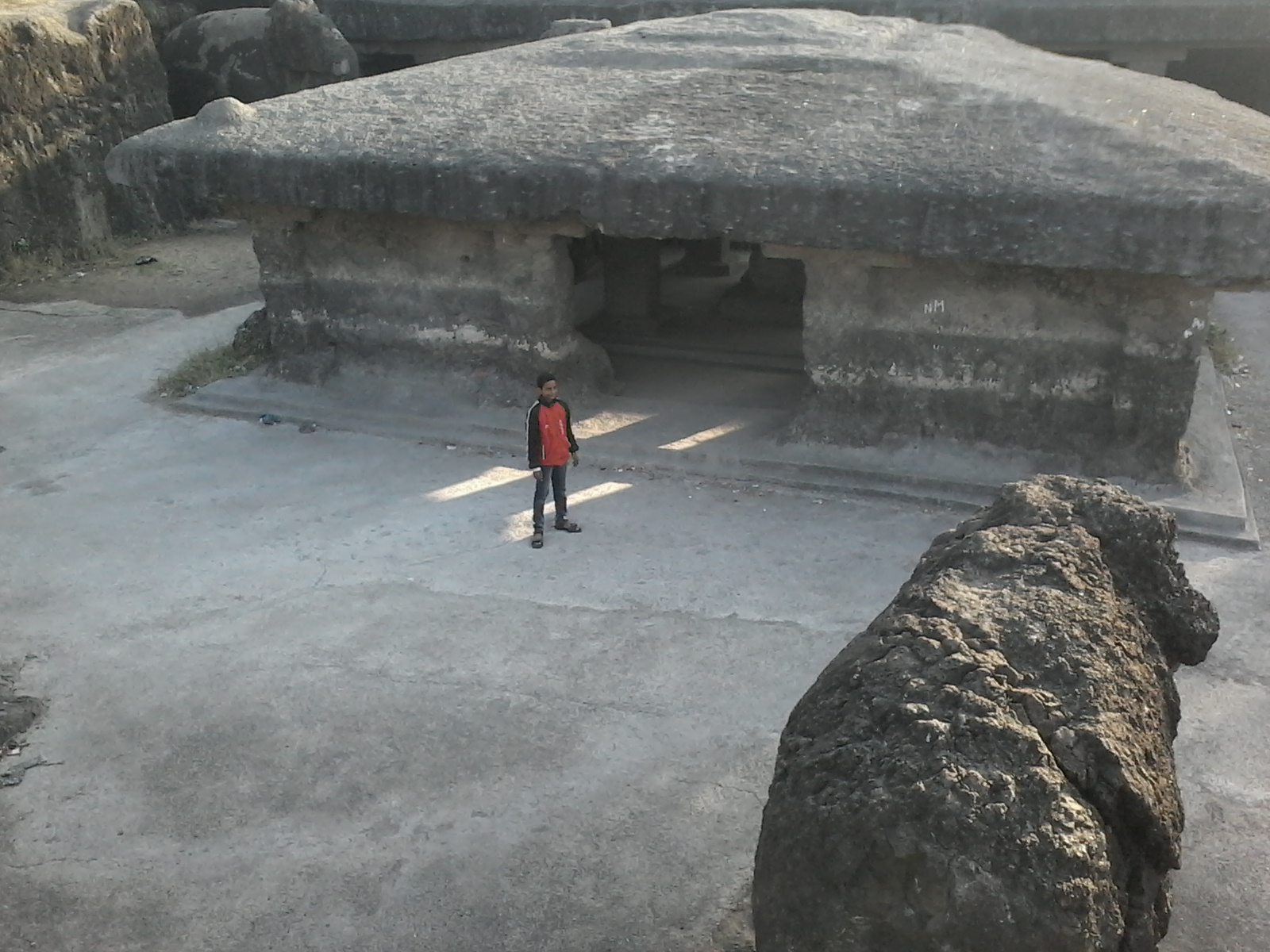 After enterance in Shivleni front view